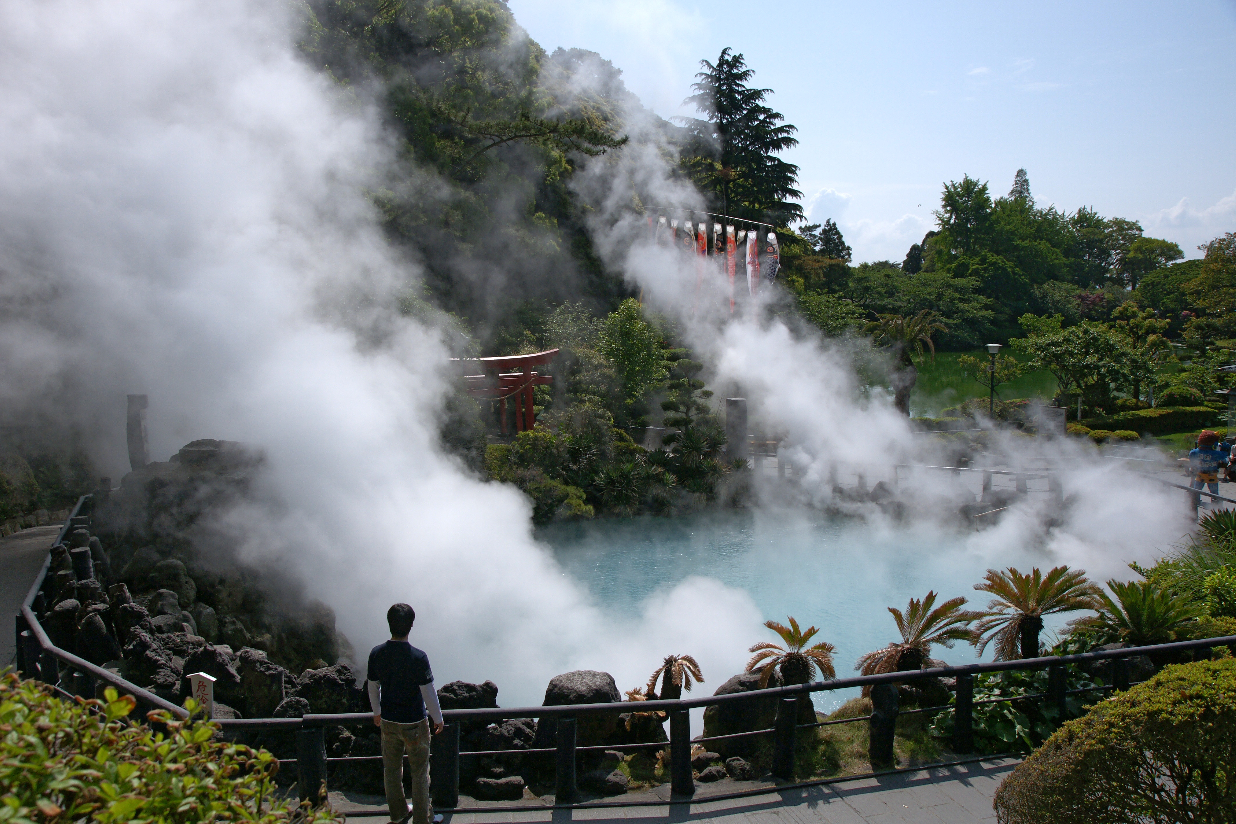 Umi Jigoku of Beppu Jigokumeguri, Beppu, Oita prefecture, Japan